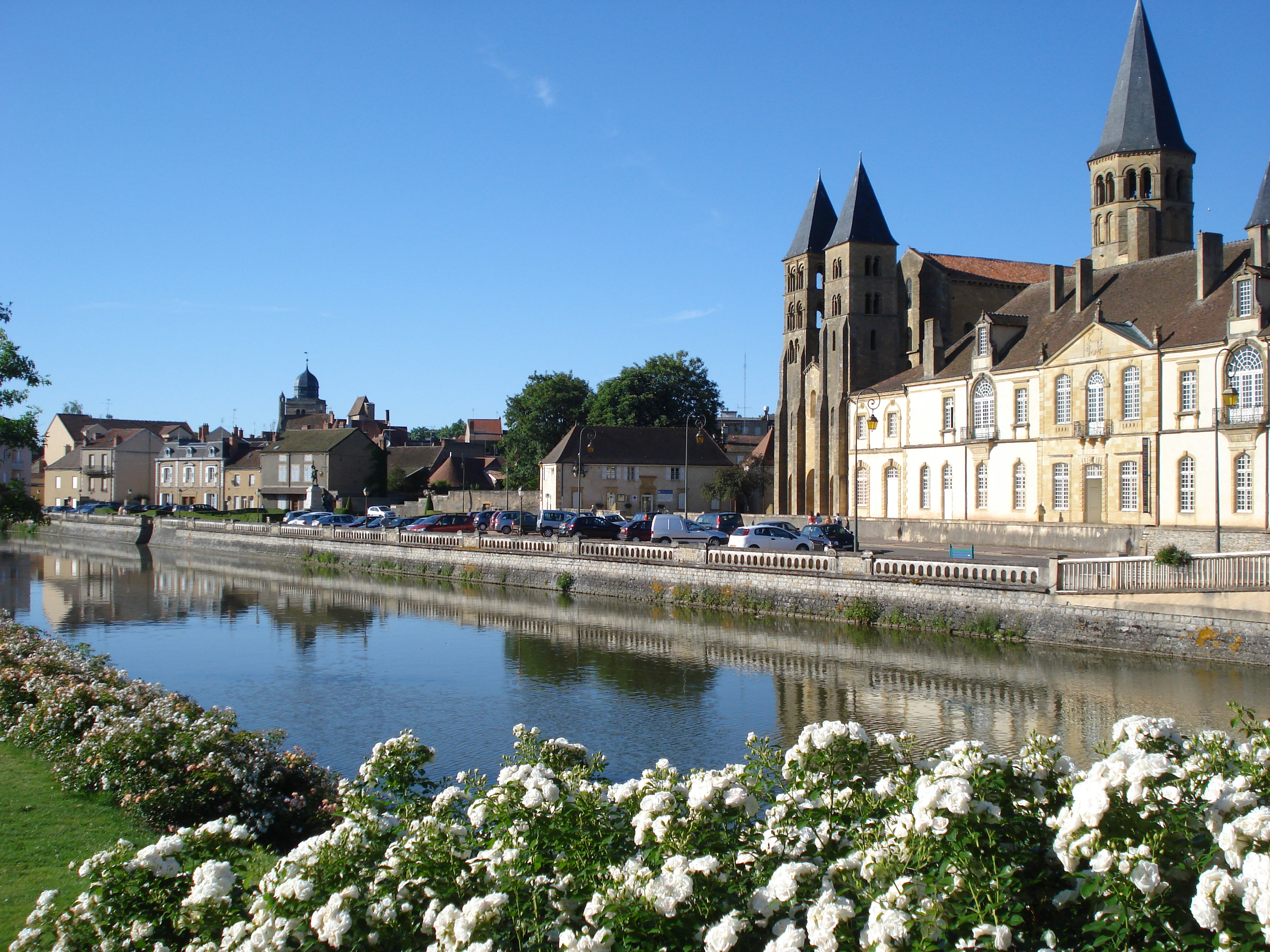 Paray-le-Monial, Bourbince river and basilique